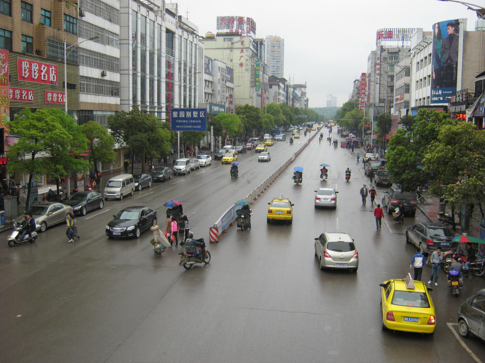 Renminnan Road (人民南路), HuaiHua (怀化), Hunan Province